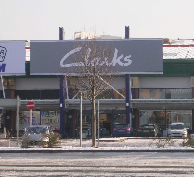 Clarks Shoes - Crown Point Retail Park